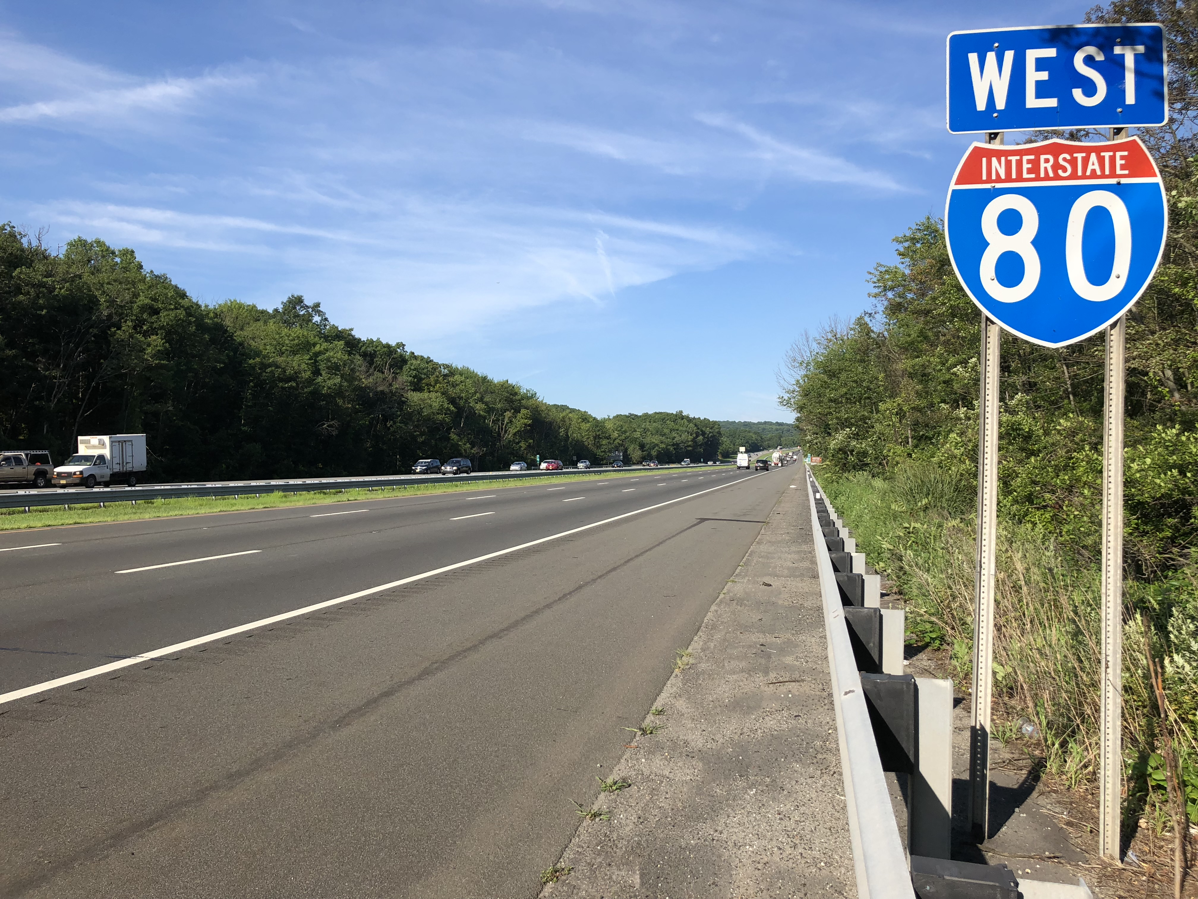 View west along Interstate 80 just west of Exit 30 in Mount Arlington, Morris County, New Jersey